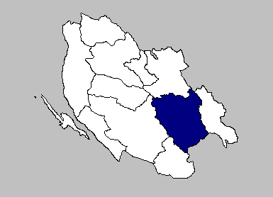 Self-made map of the Udbina municipality within the Lika-Senj County.